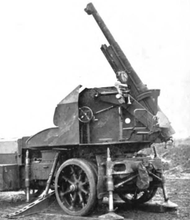 French 75-mm Auto-Cannon on its specially designed De Dion automobile chassis, "in action". Operated by the Anti-Aircraft Mobile Brigade of the Royal Naval Volunteer Reserve. From: The Defence of London, 1915-1918 by A. Rawlinson.